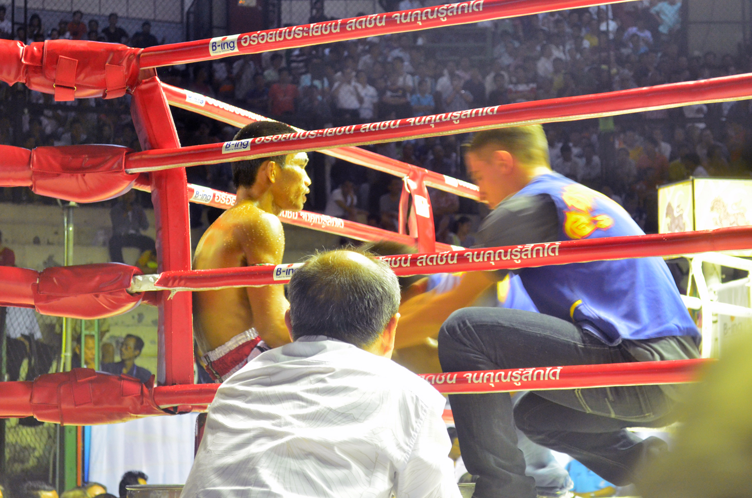 Kaotaem Lookprabat